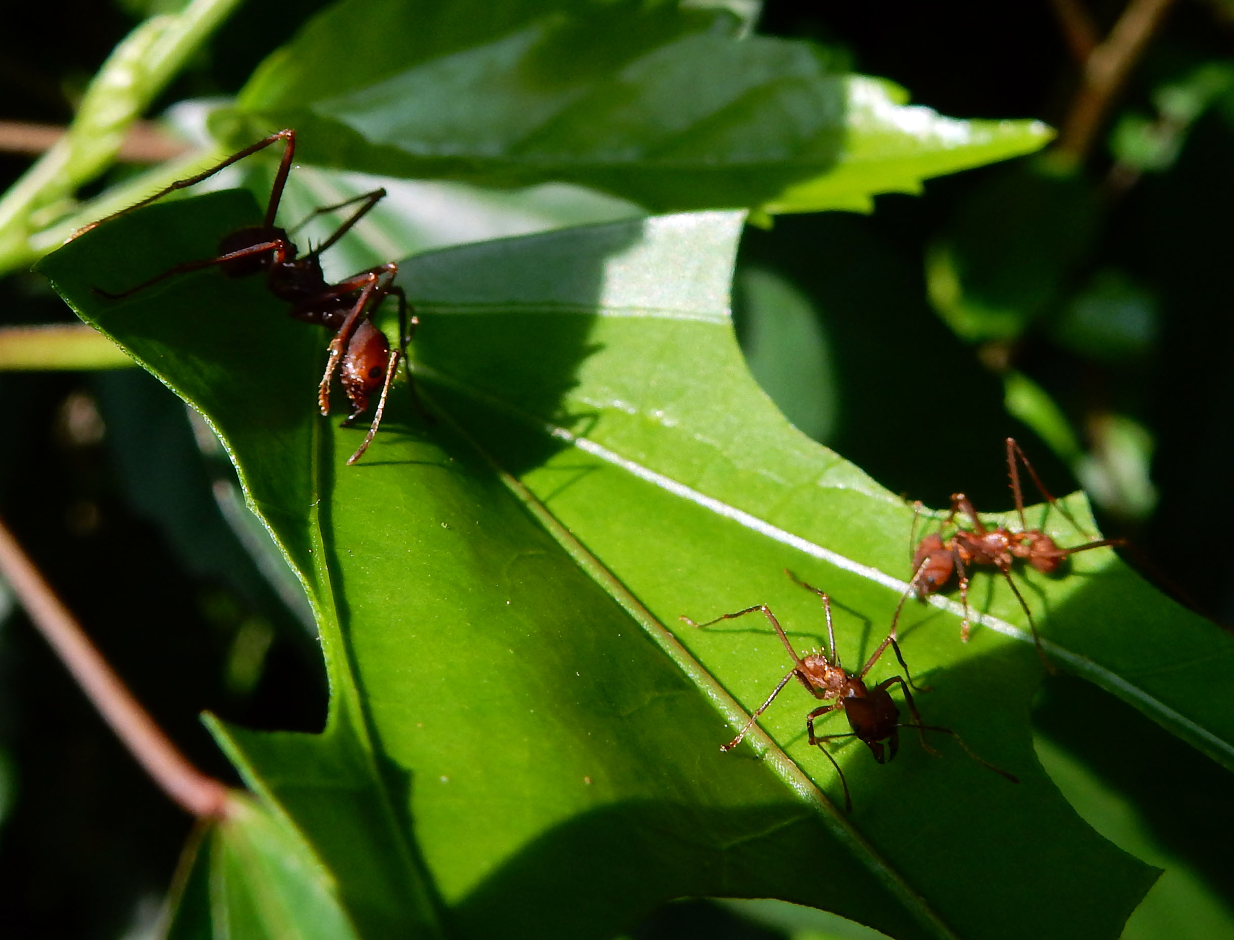 Leaf-cutter ants found near Sacha lodge, Ecuador, South America